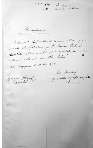 Mandate of the Romanian politician Simion Pahone, deputy in the Great National Assembly from Alba Iulia, on behalf of the Romanian national council of the village of Josenii Bârgăului, 1918